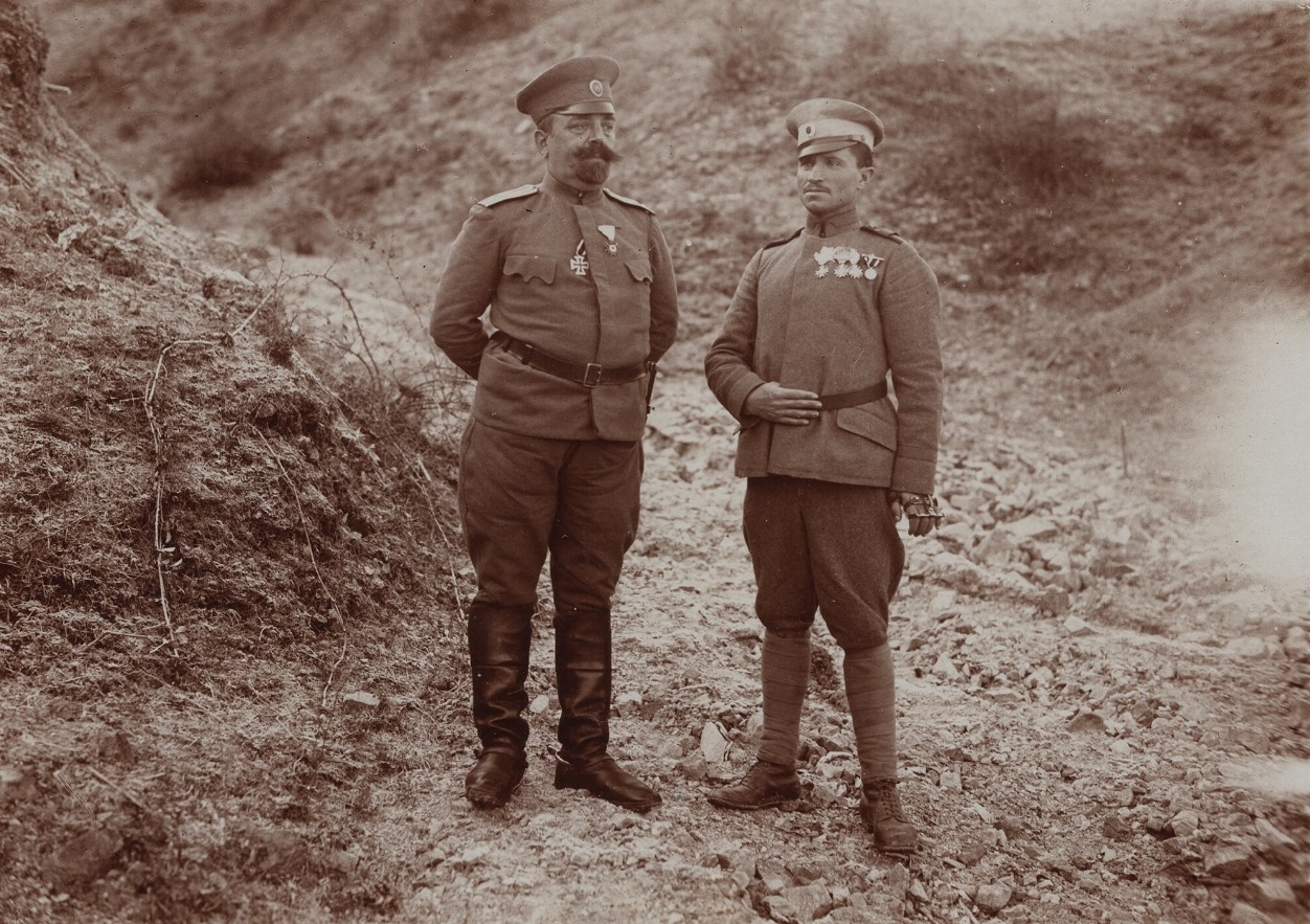 Grigor Silyanovski and Ivan Kolev